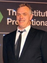 Cropped photograph of Greg Davies at the 2011 IPM Awards